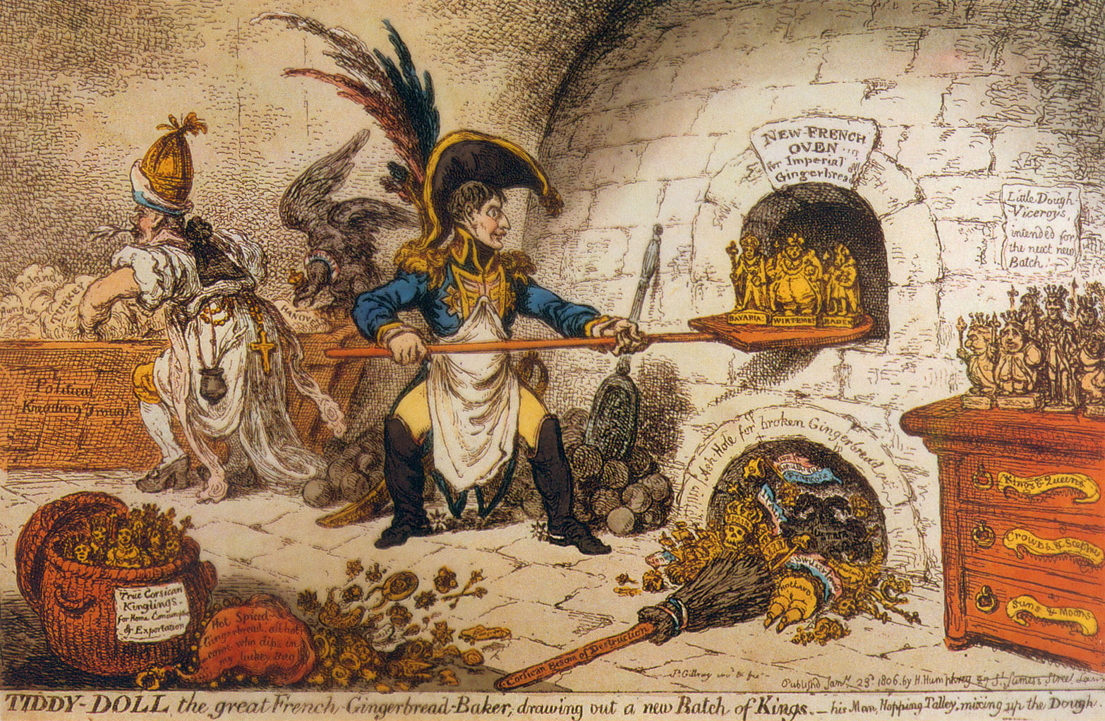 Caricature by James Gillray: Tiddy Doll, the great French-Gingerbread-Baker; drawing out a new Batch of Kings. Published on 23 January 1806. The "new batch of kings" being pulled out of the oven by Napoleon are the King (previously Elector) of Bavaria, the King (previously Elector) of Württemberg and the Grand Duke (previously Margrave) of Baden. Their elevation to these new titles was confirmed by the Treaty of Pressburg of 26 December 1805. Foreign Minister Talleyrand busying himself in the background is shown wearing a bishop's mitre (Talleyrand had been Bishop of Autun up to the French Revolution).